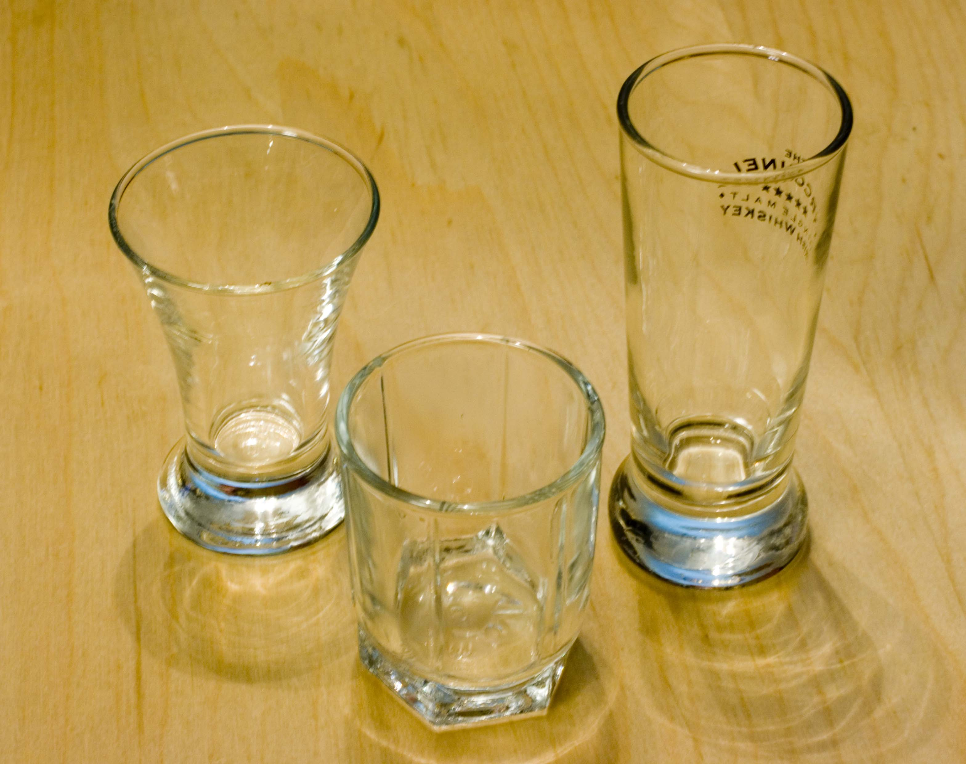 A trio of three typical shot glasses